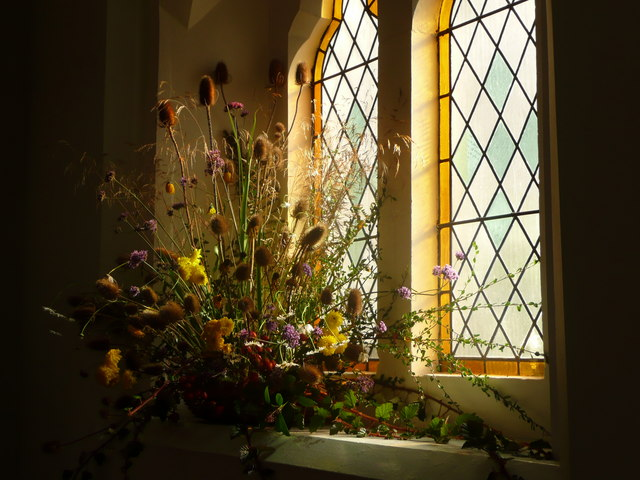 Harvest Festival Flowers at Shrewsbury United Reformed Church